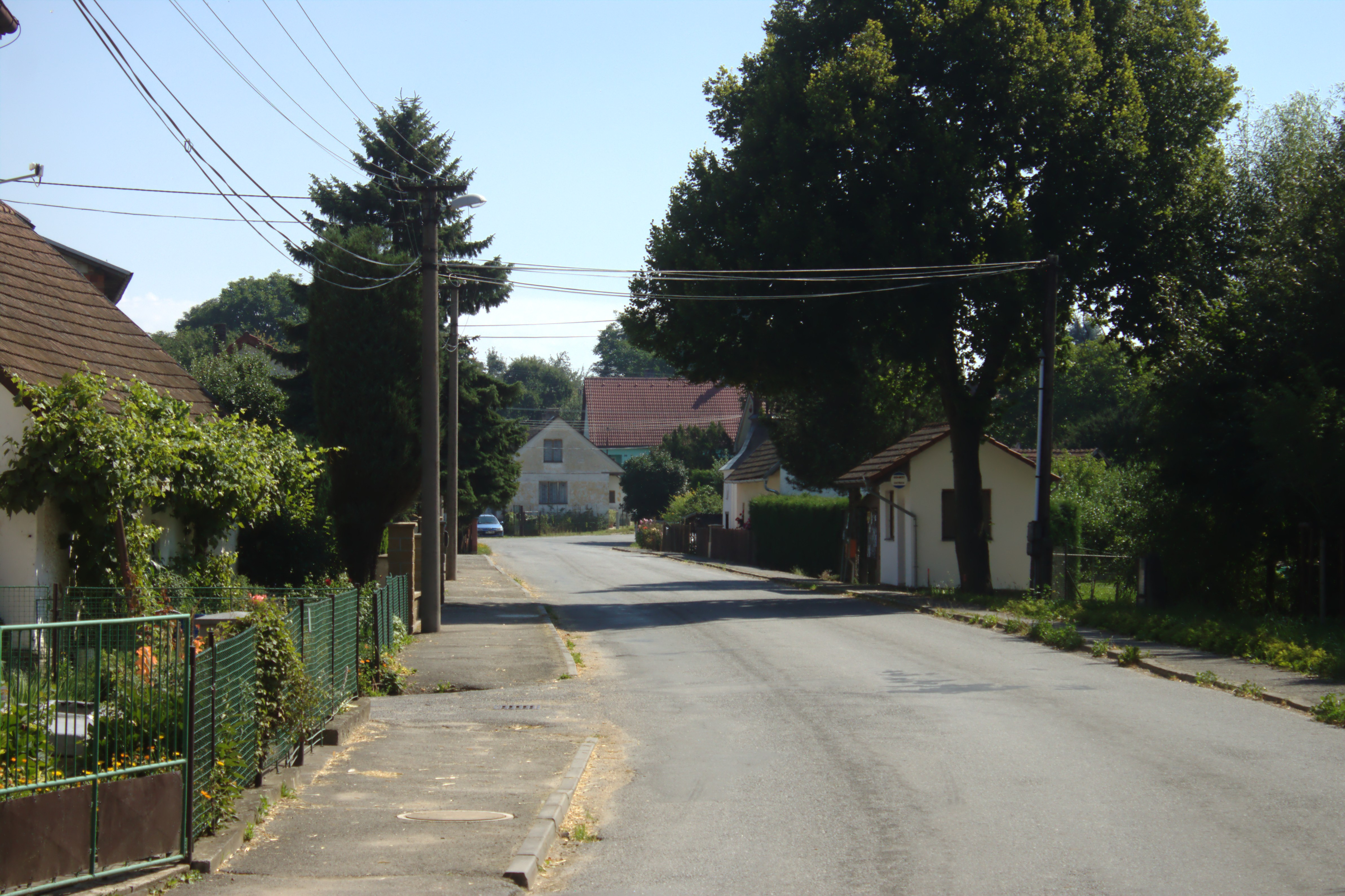 Main road in the village of Horní Hořice, located near Tábor, CZ